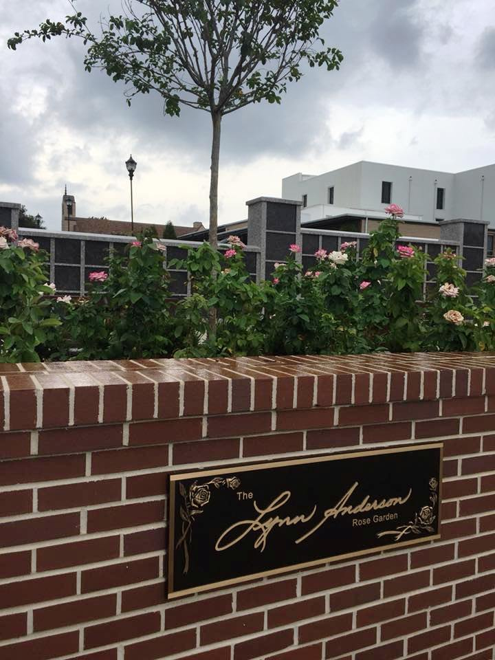 Lynn Anderson Memorial Garden at Woodlawn Gardens in Nashville, TN - as mentioned in her wikipedia article